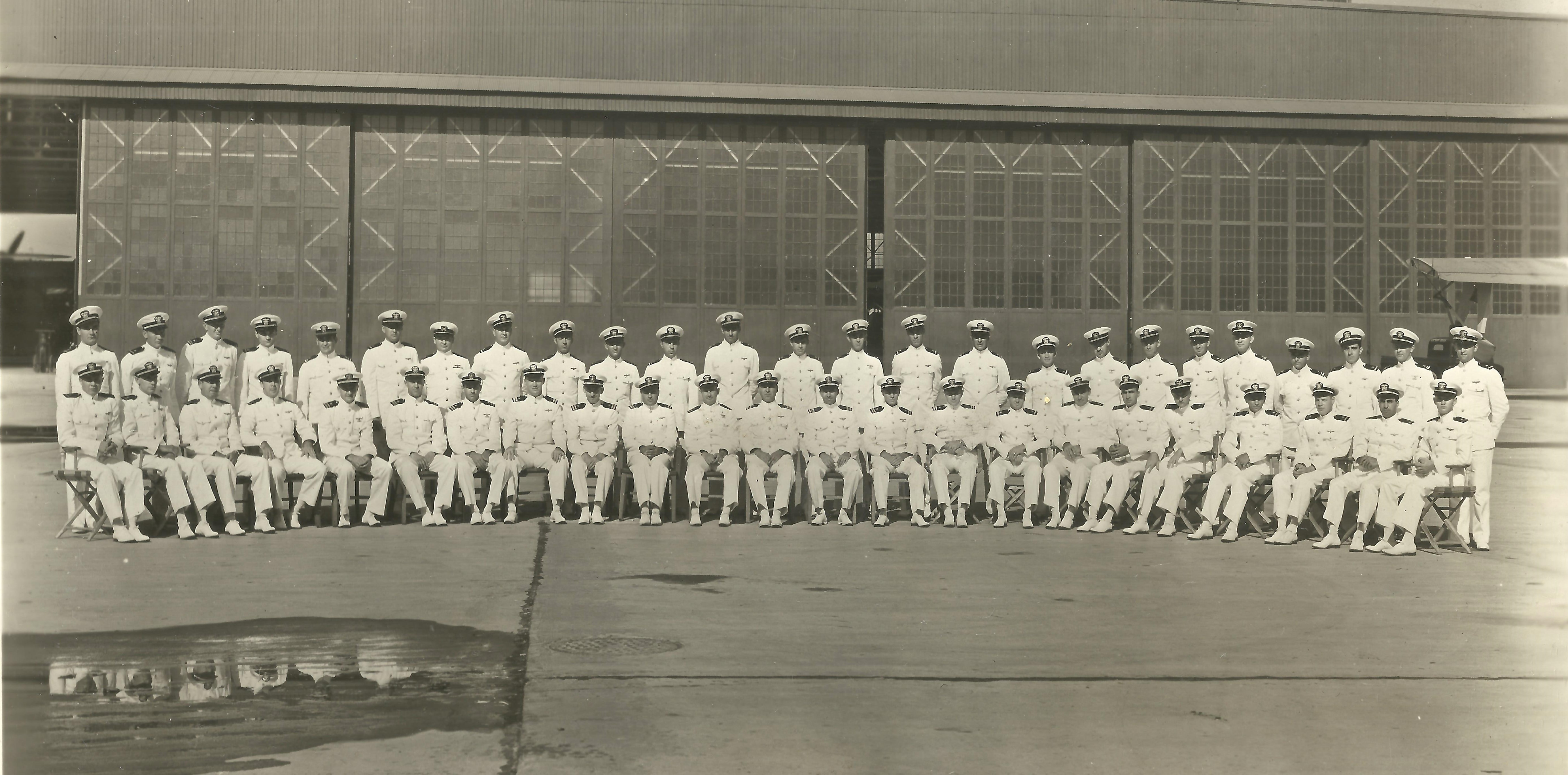 Pre-deployment for WW2, Squadron Photo